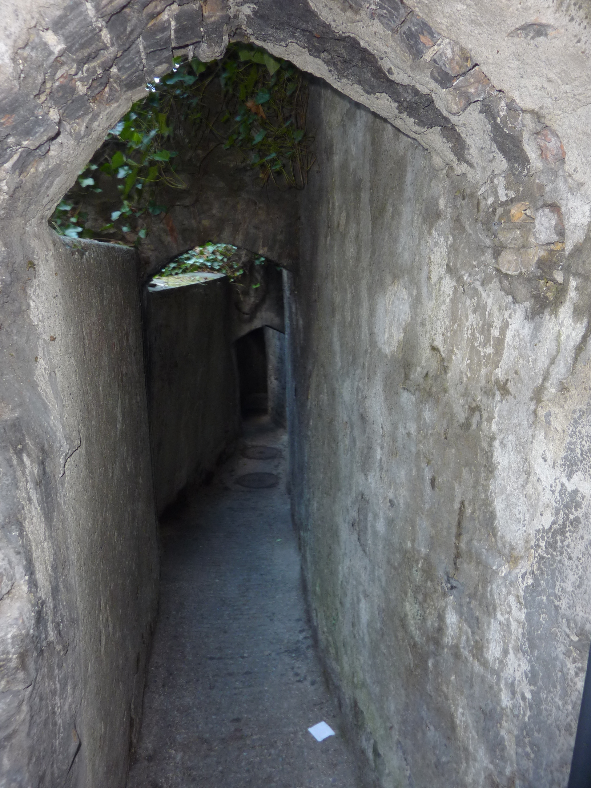 Inside Passage de Monetier (only open one week end per year) in Geneva